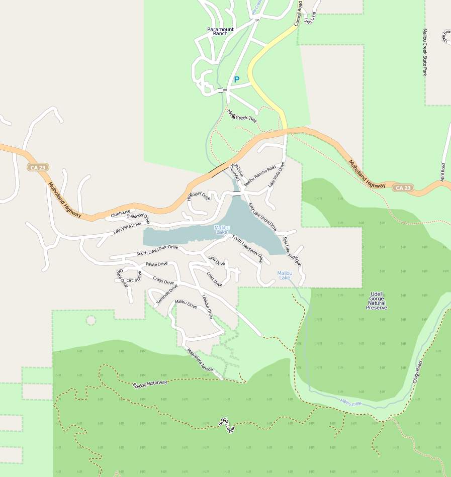 Map of Malibou Lake — in the Santa Monica Mountains.